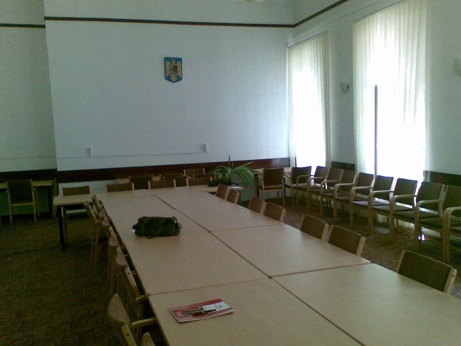 The (empty) room where the Senate of the Technical University of Cluj-Napoca meets. Referred to as "The Senate Room".